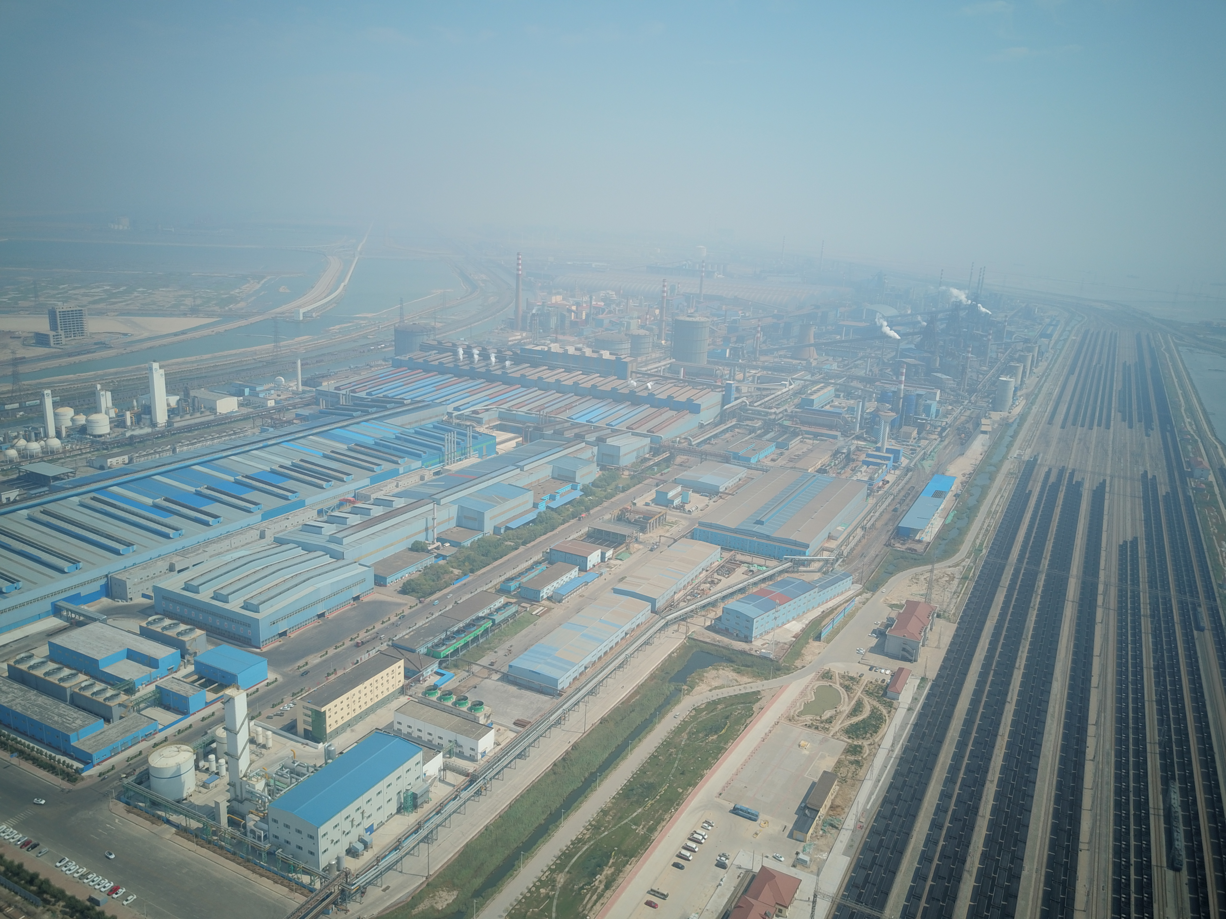 黄骅港航拍